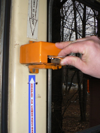 A tramway ticket perforator